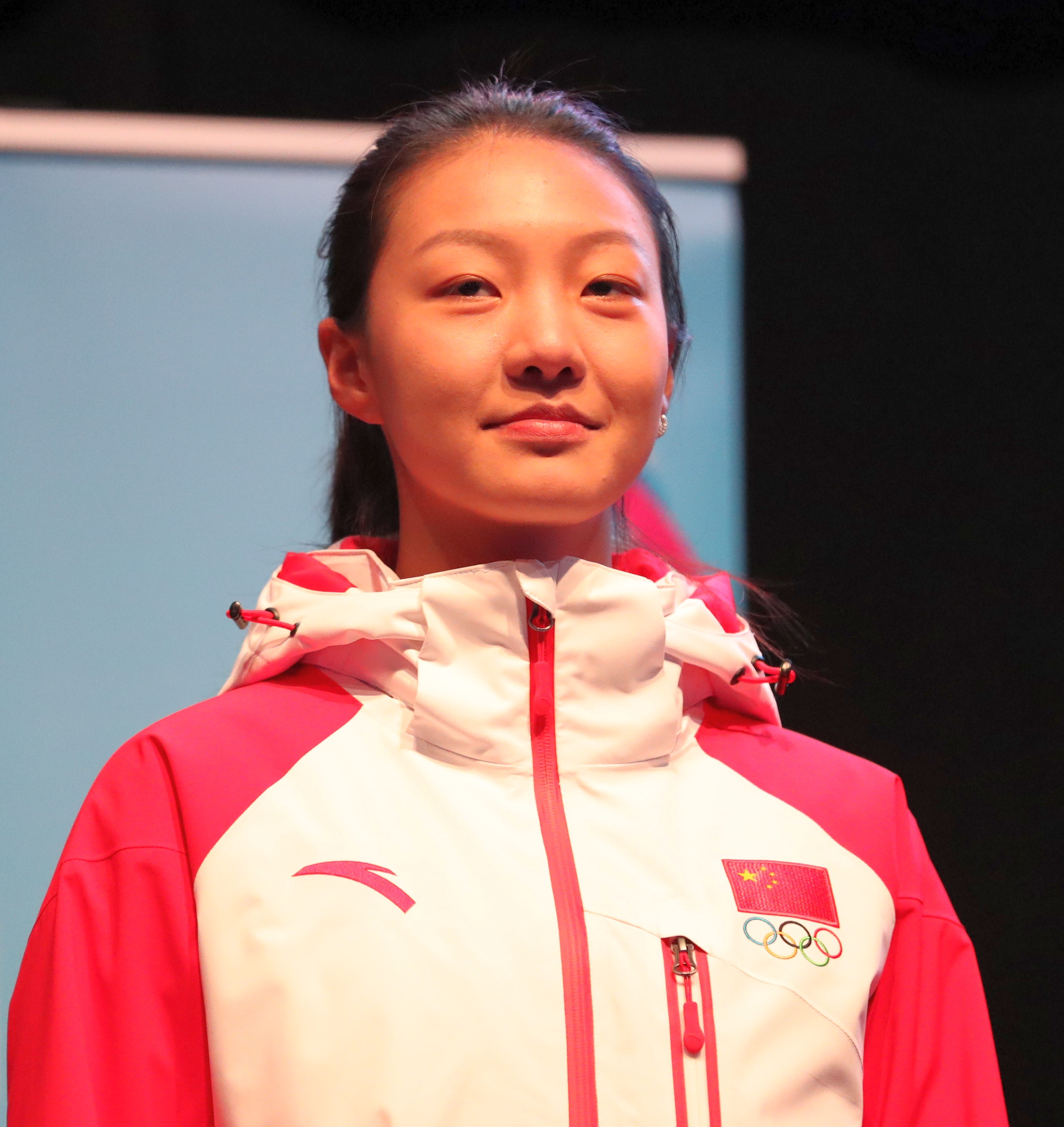 Medal Ceremony Day 7 in St. Moritz, 2020 Winter Youth Olympics in Lausanne